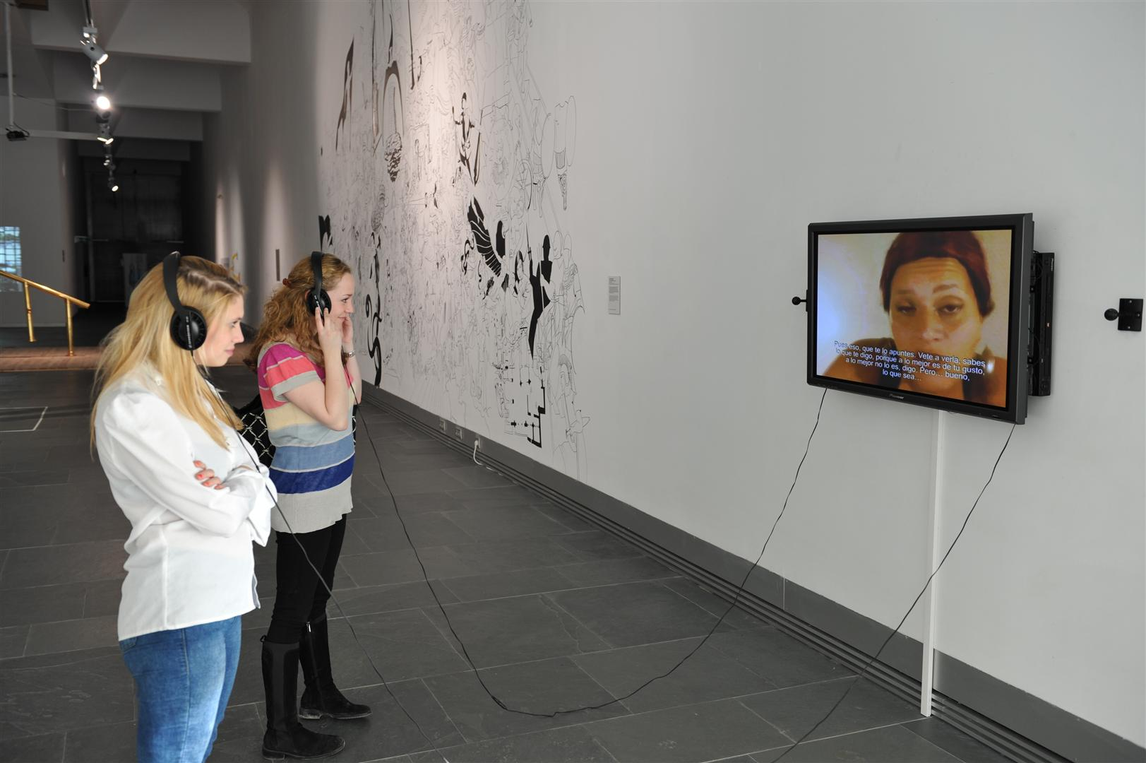 Visitors watching Wanda Raimundi-Ortiz, Ask Chuleta: Biennial Culture, 2010